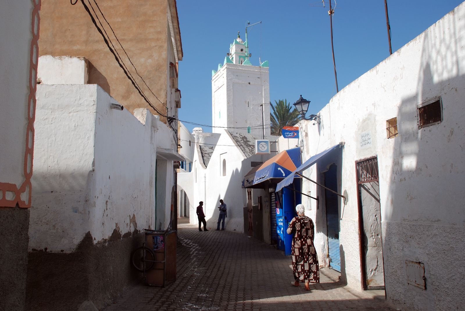 Azemmour, Morokko, Madina